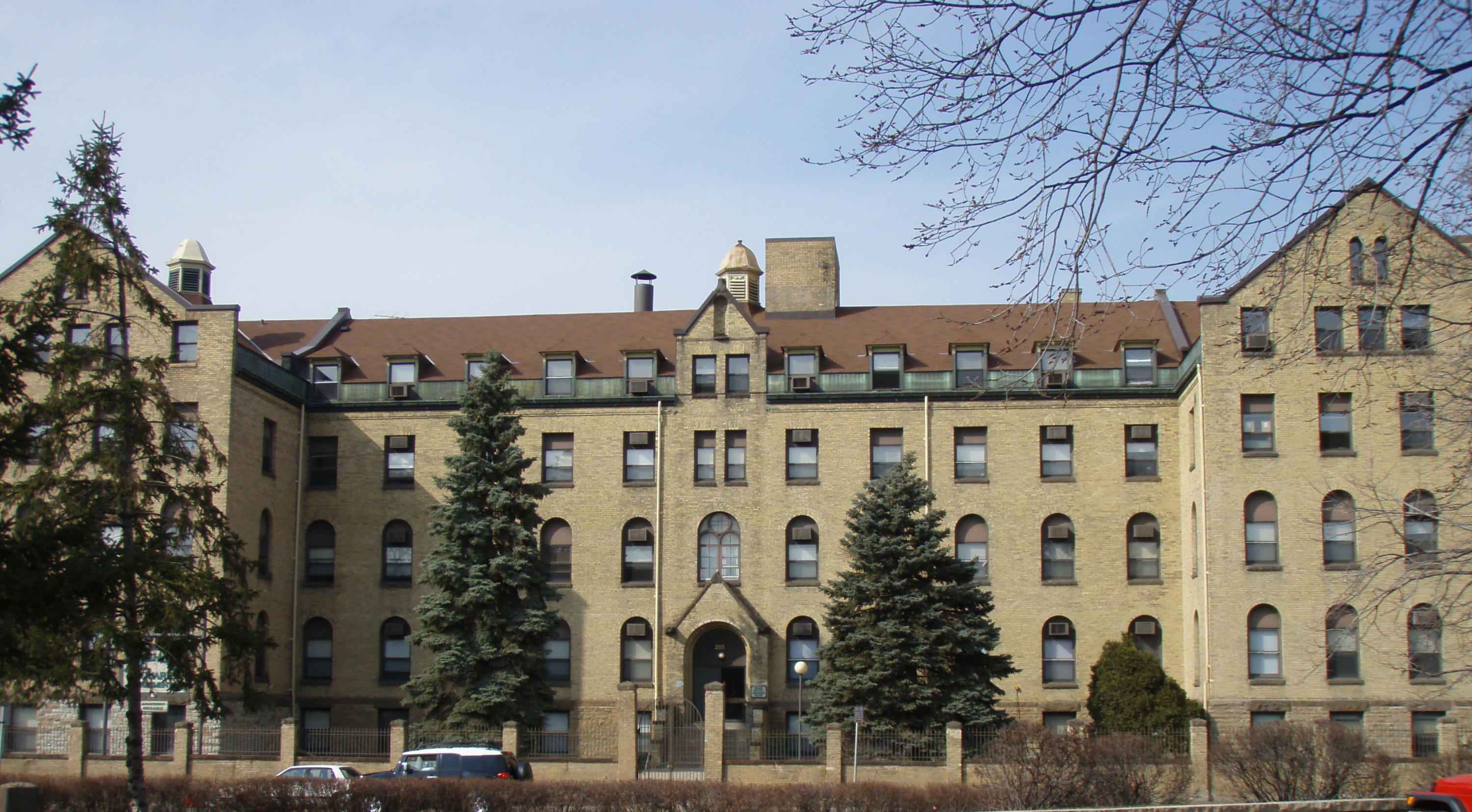 Little Sisters of the Poor Home for the Aged in Minneapolis, Minnesota, now listed on the National Register of Historic Places